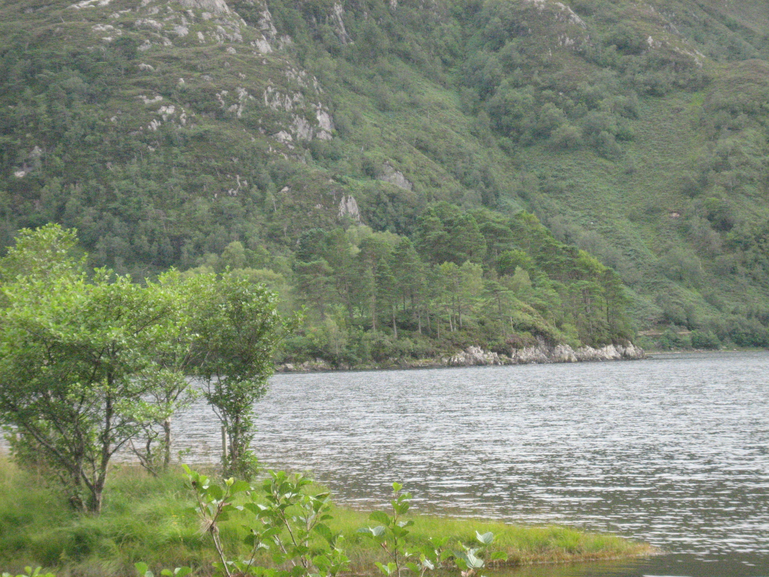 A detail of Loch Shiel near the village of Glenfinnan